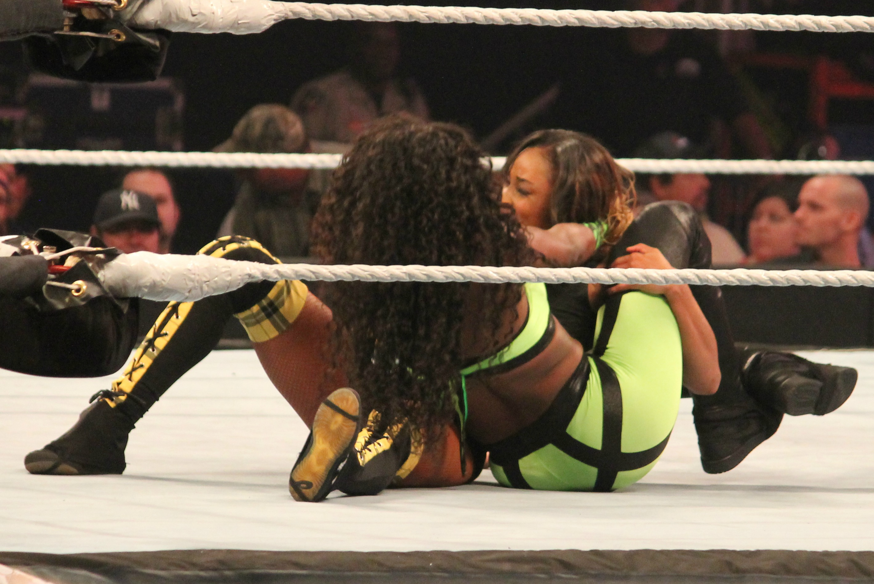 Naomi Applying the Slaymission on Cameron.